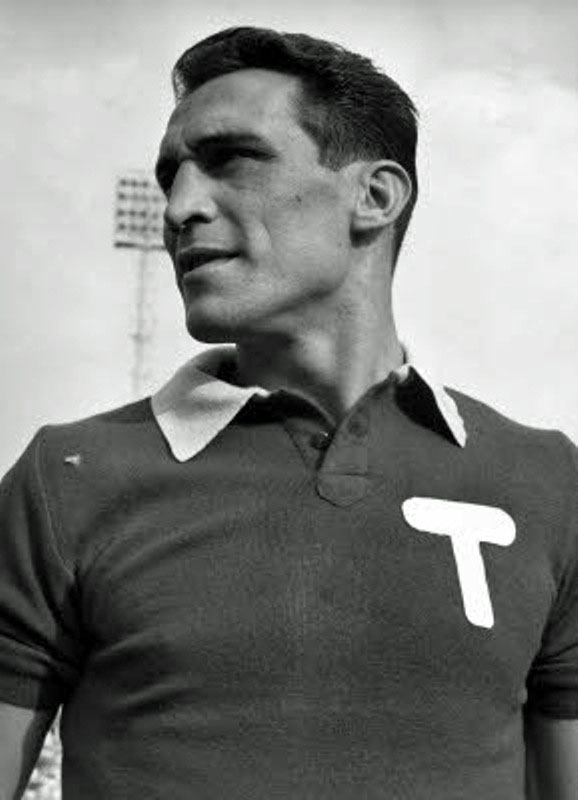 AC Talmone Torino's captain Enzo Bearzot.